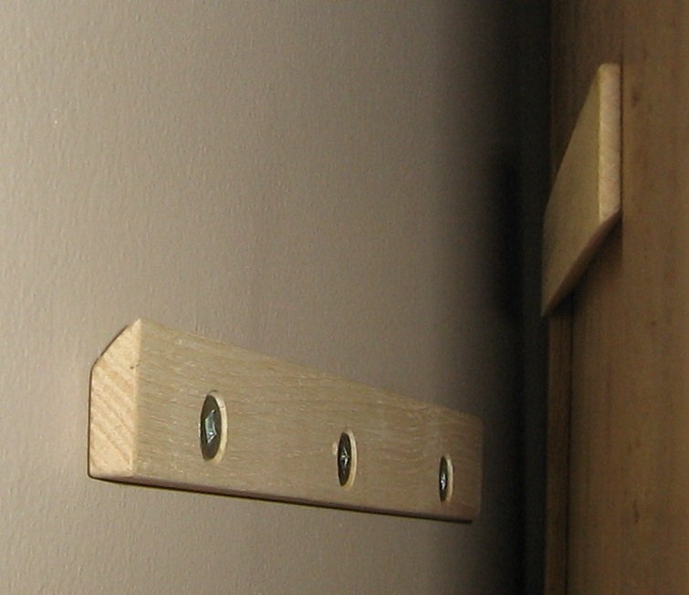 Image of a french cleat used to hang a shelf against a wall.